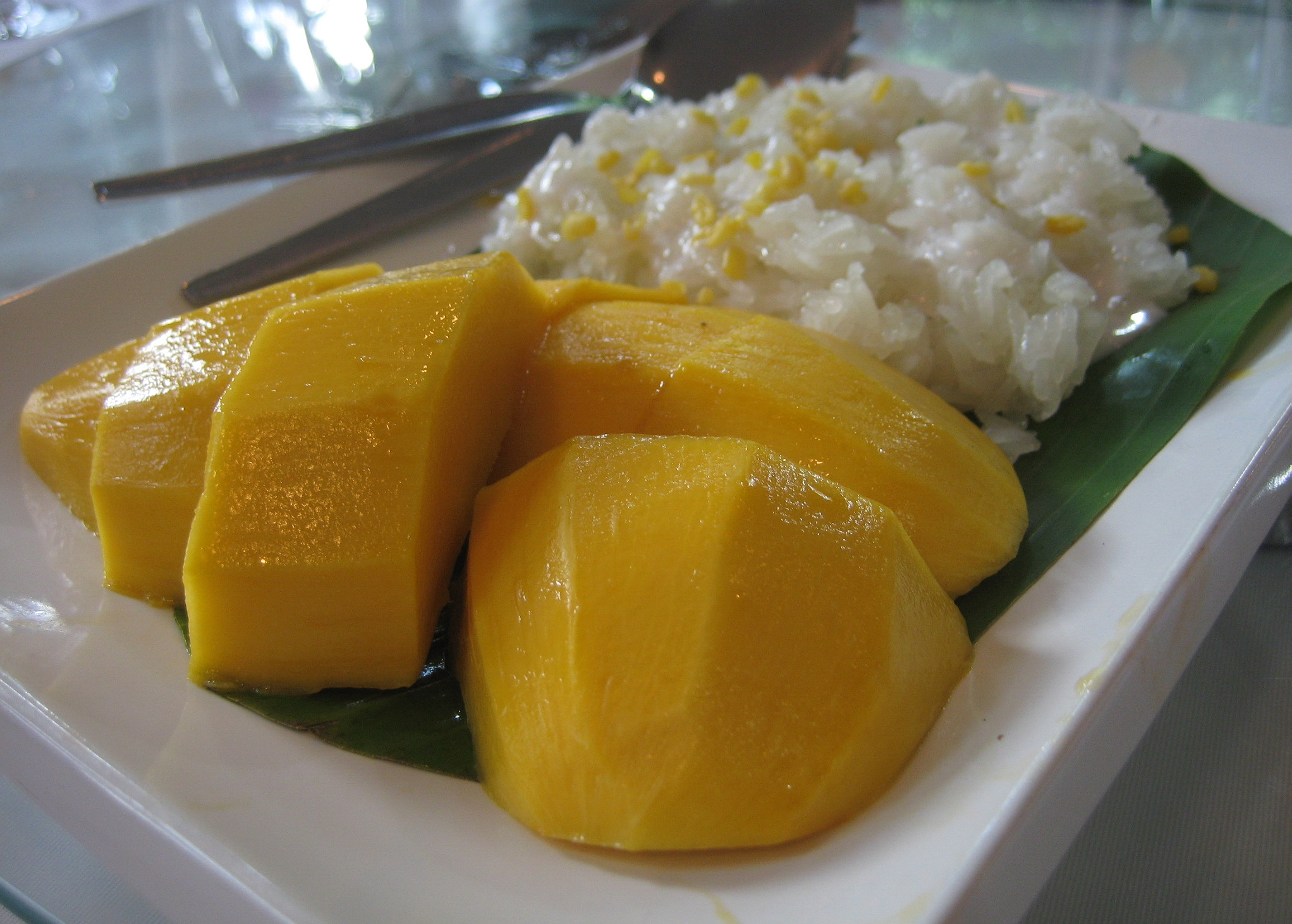 Thai mango with glutinous rice.